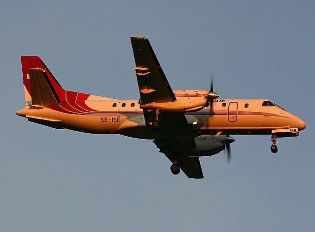 Golden Air Saab 340 landing at Helsinki-Vantaa airport